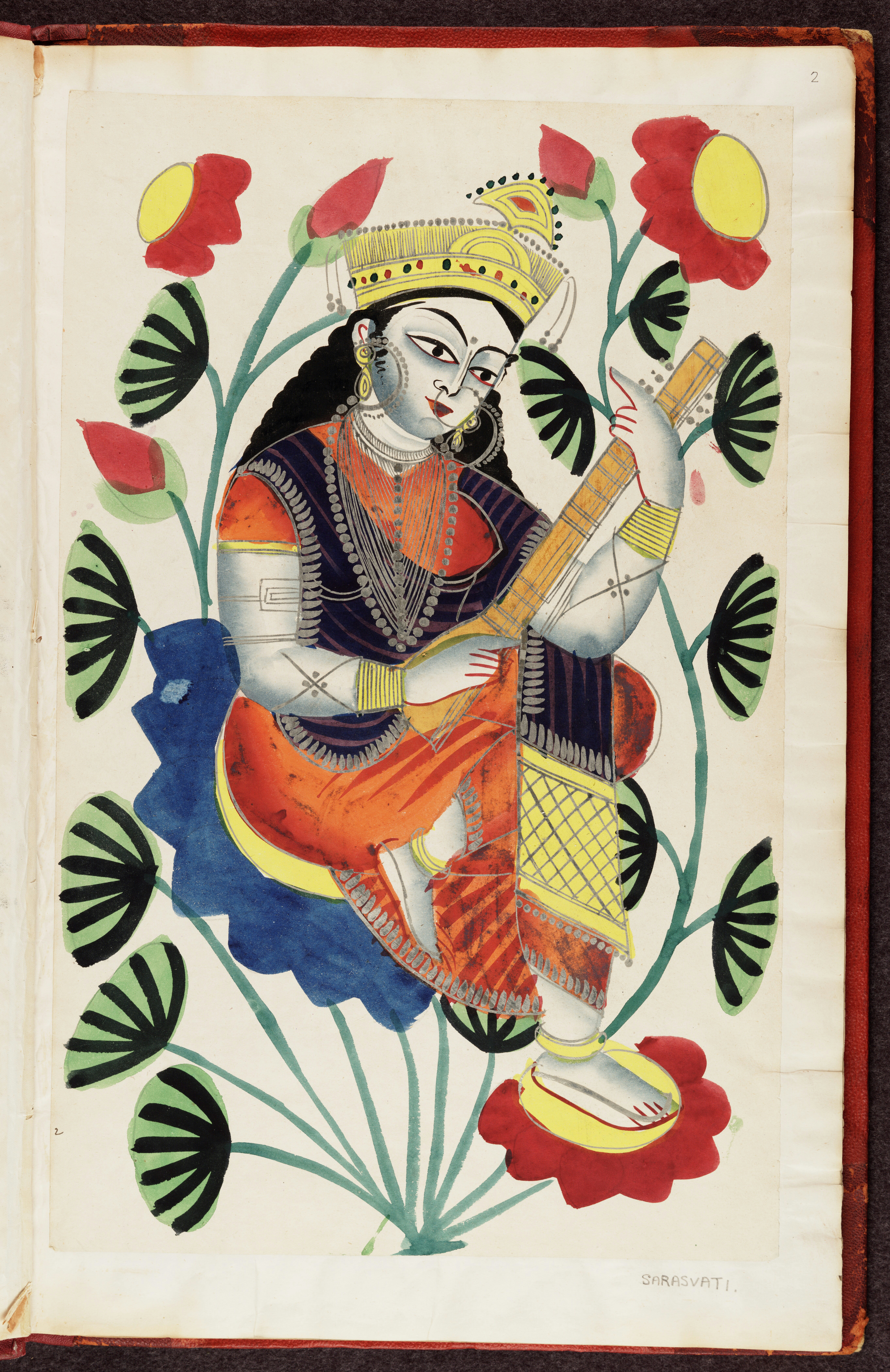 Sarasvati, goddess of language and literature. Digitized Kalighat painting from 19th century Calcutta, created as inexpensive souvenirs for Hindu pilgrims visiting the famous temple of Kali; The paintings are bound in a single volume, which includes eight hand-coloured woodcut prints (ff. 29-36). They were acquired by Sir Monier Monier-Williams for the Indian Institute Library and Museum at Oxford as a result of his third fund-raising trip to India in the winter of 1883-1884. During this trip, he secured the help of various regional authorities in obtaining local art and craft work and sending them to Oxford. The Kalighat paintings and prints are listed in Babu T.N. Mukherji's "List of Articles collected for the Oxford Institute under the instruction of T.W. Holderness Esq. and Dr. George Watt," Calcutta, 1884, which is bound in the "Original Lists" MS volume held in the Department of Eastern Art, Ashmolean Museum. Shelfmark: MS. Ind. Inst. Misc. 21 [Arch. O. a. 7]